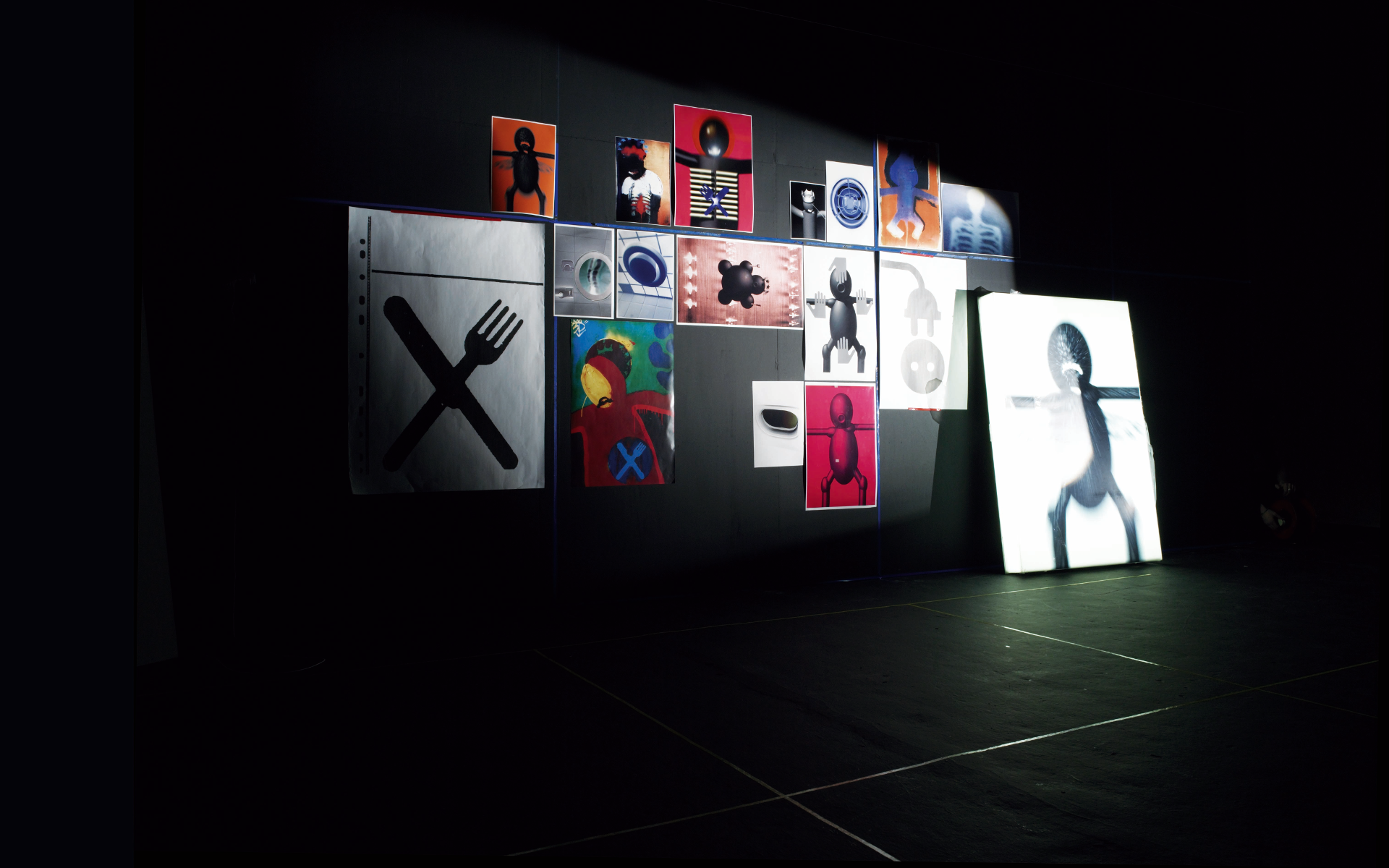 Robert Del Naja's graffiti artwork